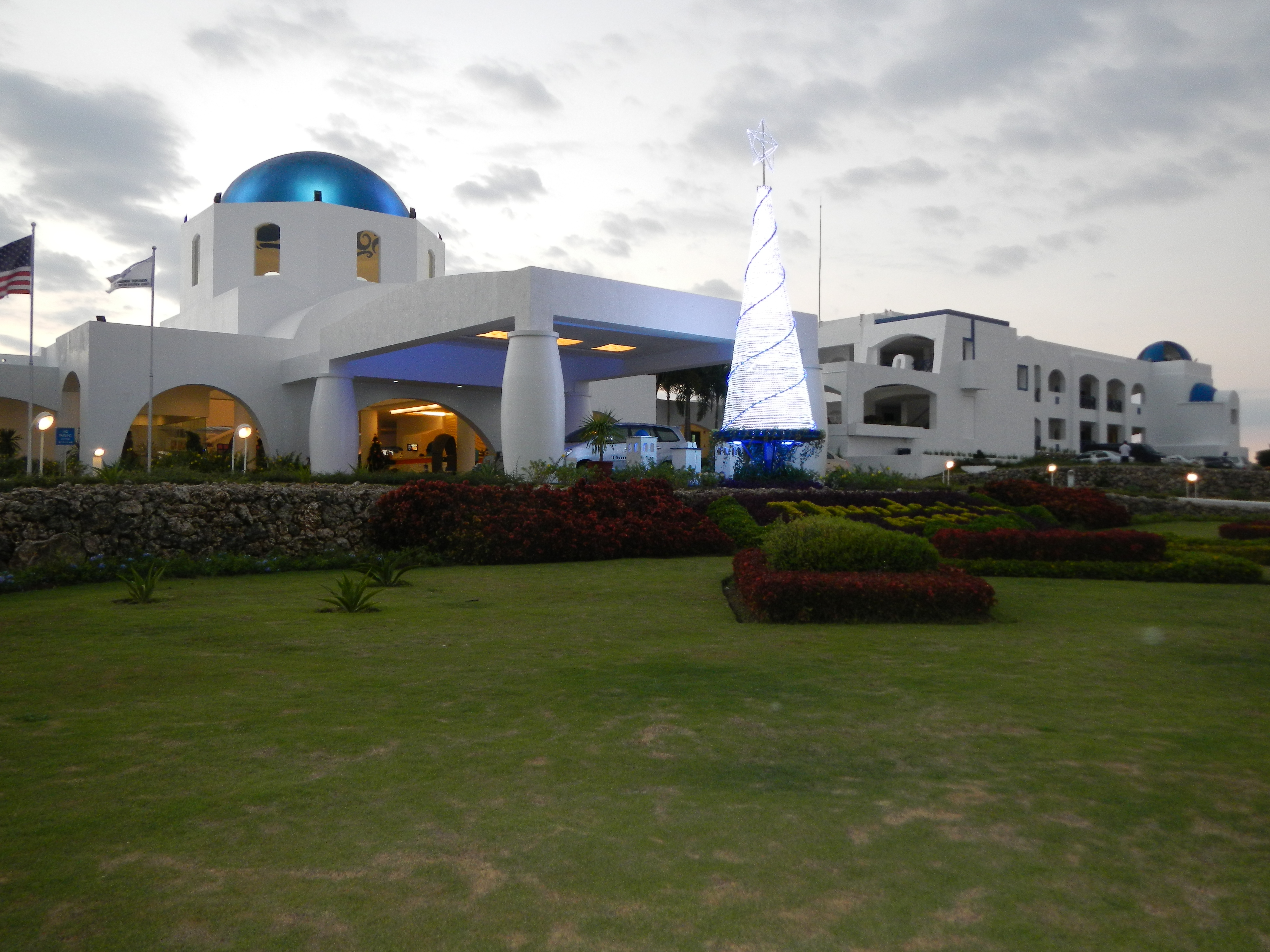 San Fernando, La Union[1][2][3] Thunderbirds Resort Poro Point